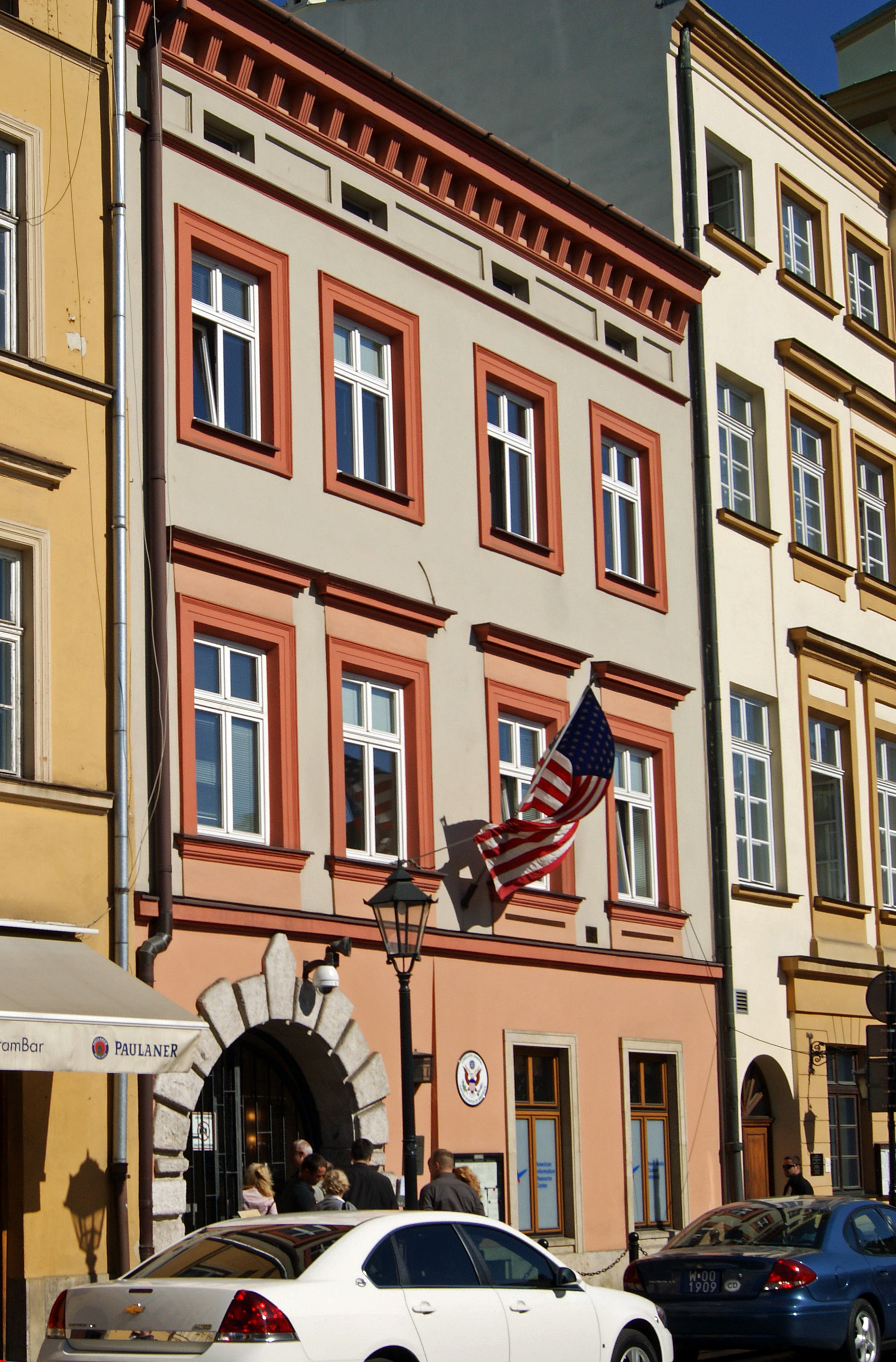 Tenement-Consulate General of the United States, 9 Stolarska street, Old Town, Krakow, Poland